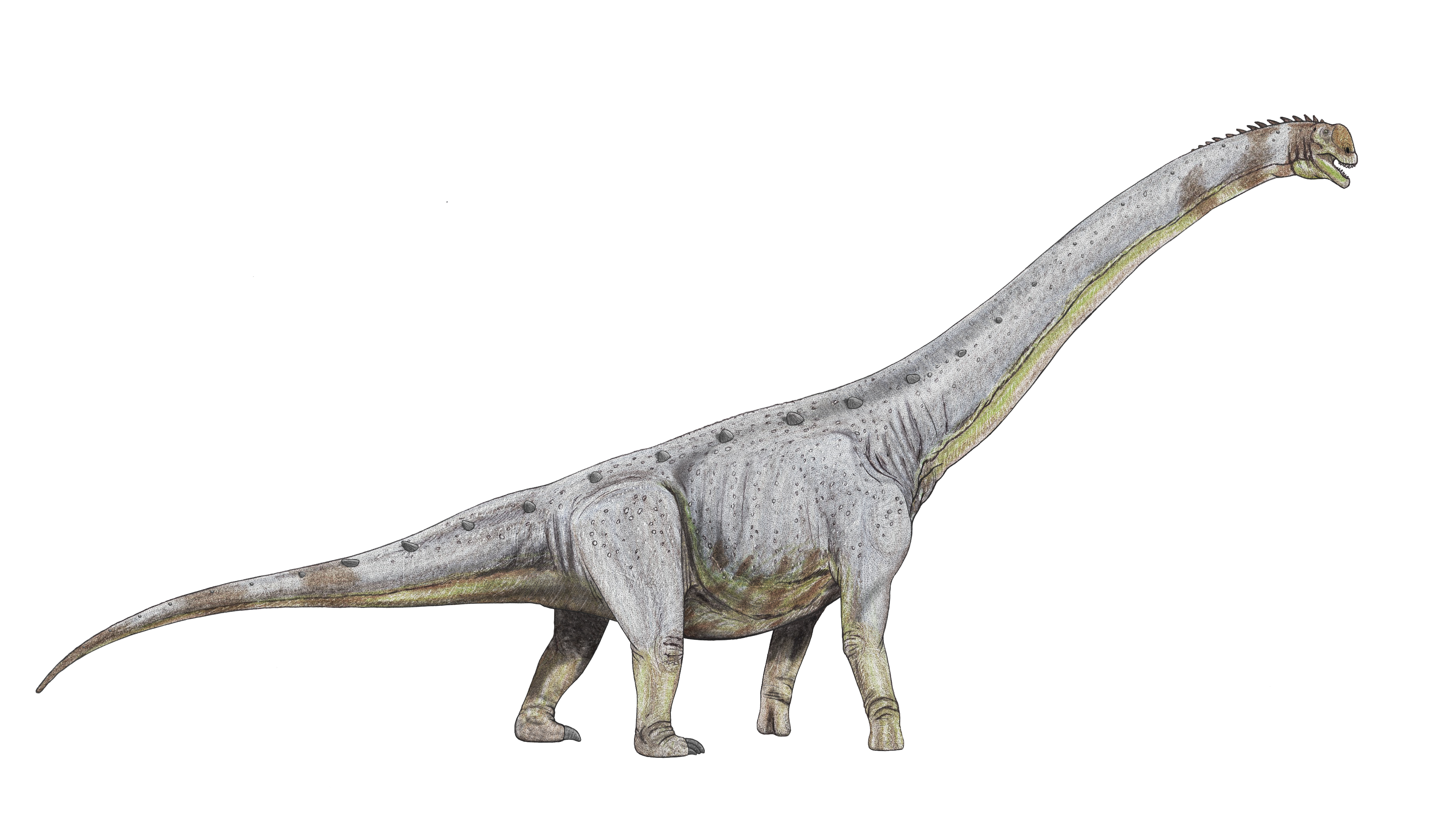 Paralititan stromeri - giant titanosaurian from Albian-Cenomanian of Egypt